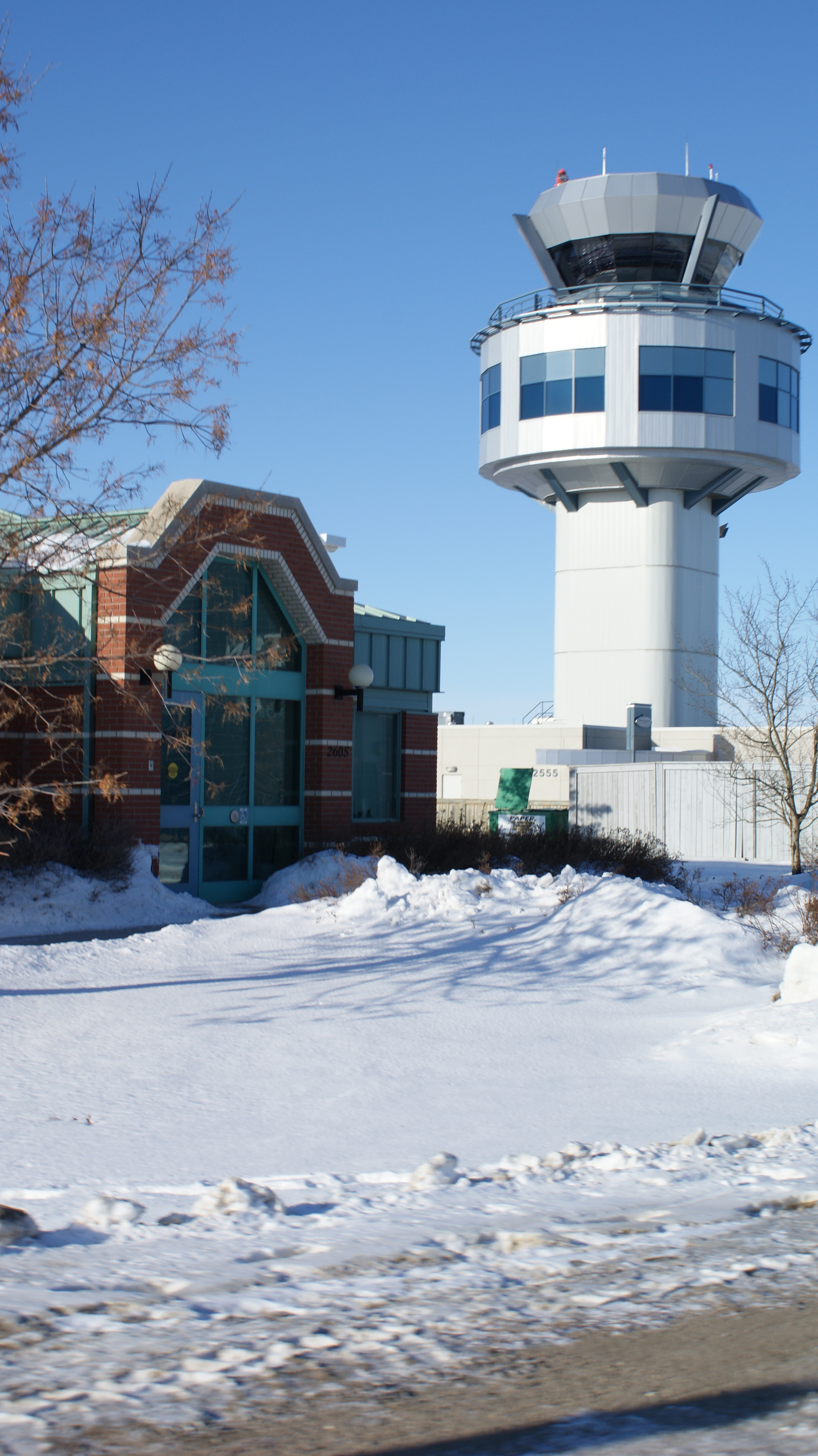 Saskatoon John G. Diefenbaker International Airport brick building and Control Tower in the winter